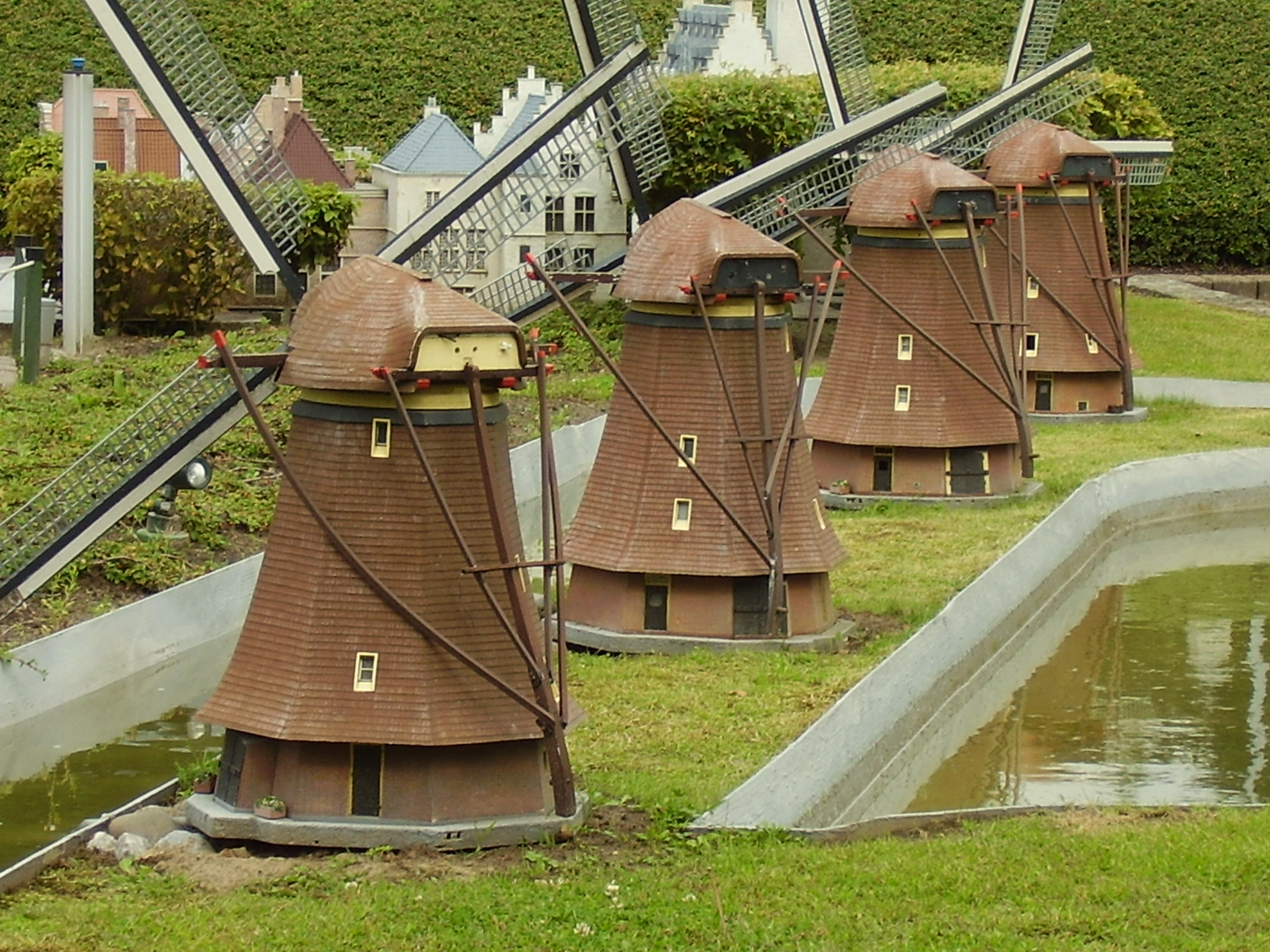 Model in Mini-Europe; Model: windmills in Kinderdijk, Netherlands